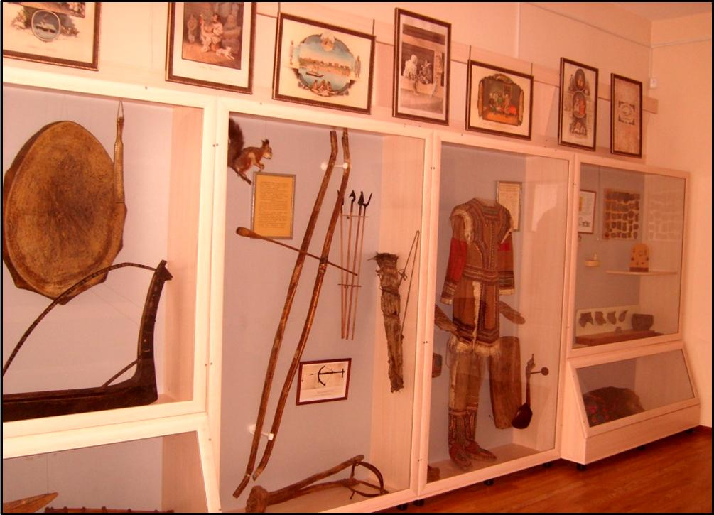 Экспозиция "История освоения края"